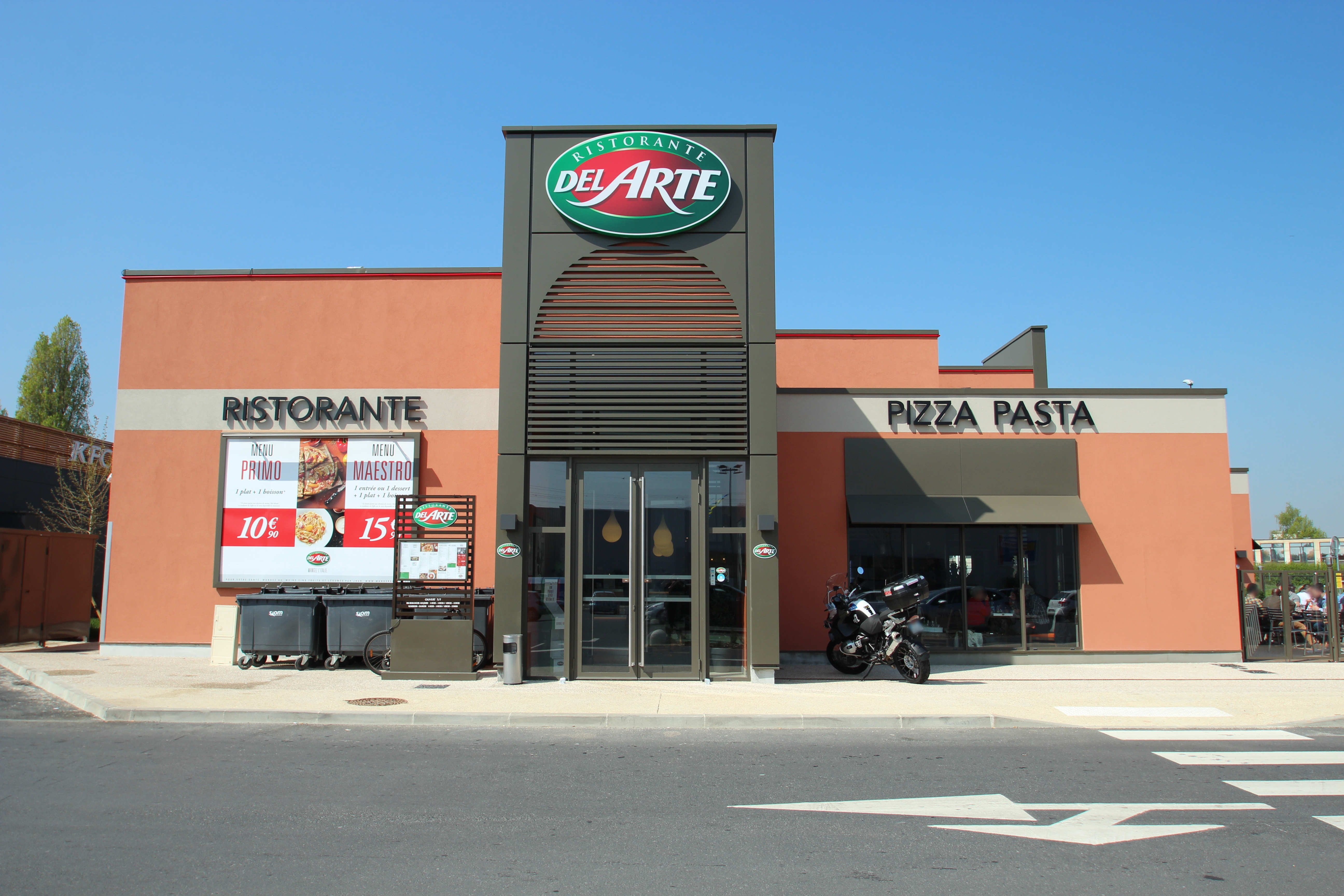 Pizza Del Arte restaurant in Les Ulis, France. Object location48° 40′ 47.28″ N, 2° 12′ 07.38″ E